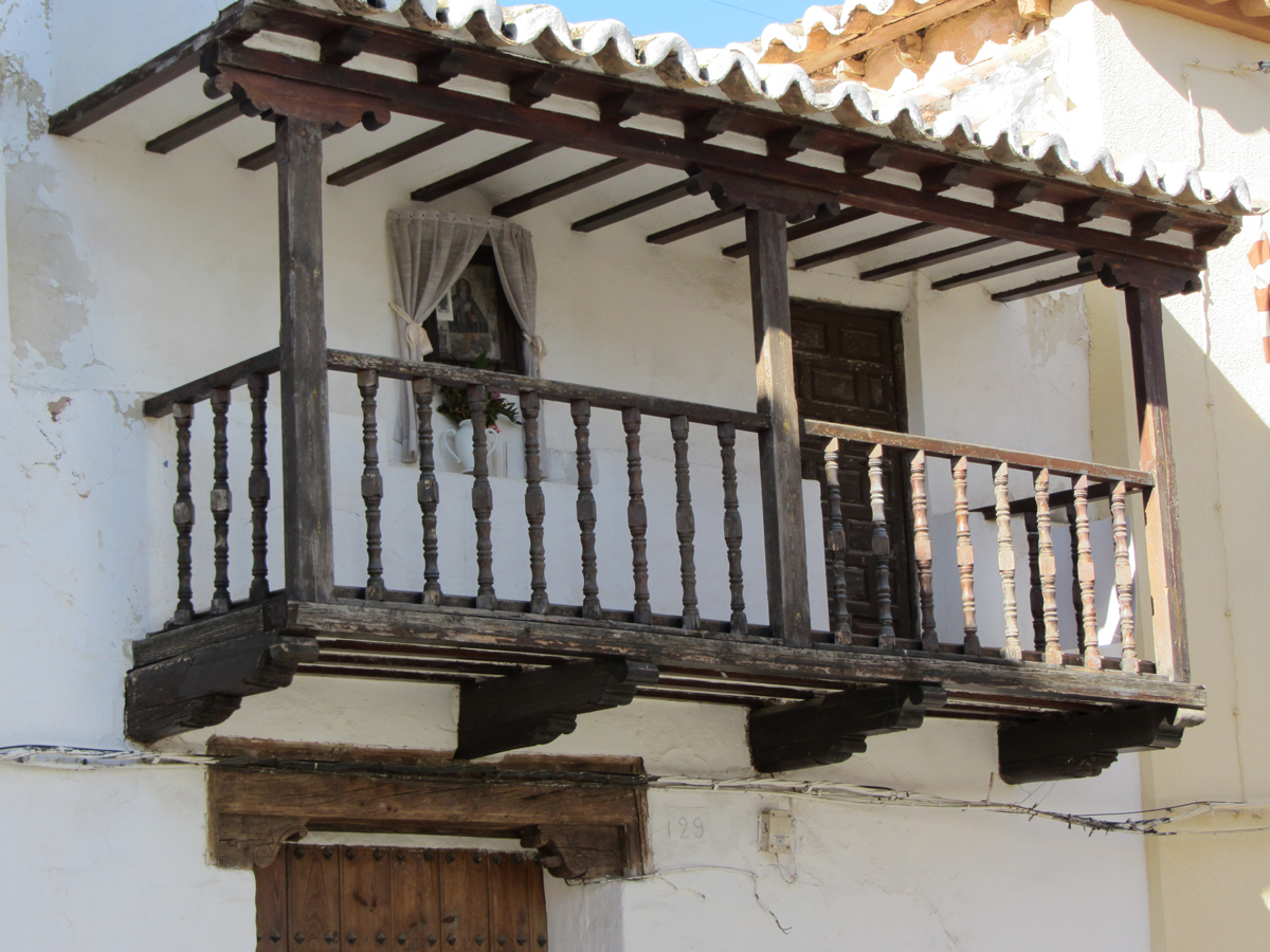 Casa del Santo